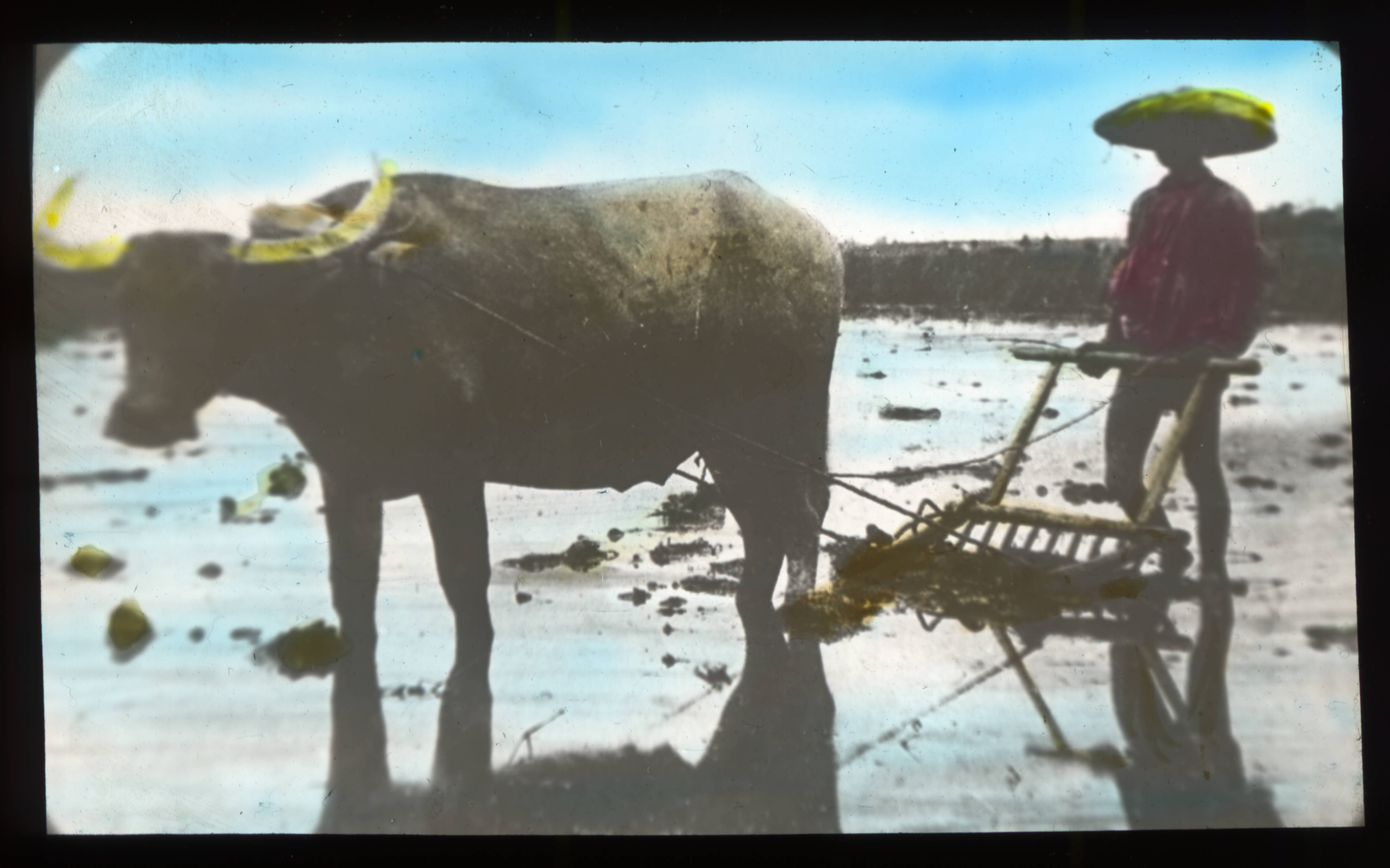 Chinese man plowing a rice field, China, ca. 1918-1938 Colorized lantern slide of a Chinese man plowing a rice field with a water buffalo. Photographer: Unknown Subject (keyword): agriculture; farmers; general views Filename: MFB-LS0003 Coverage date: 1918/1938 Subject (unesco): agriculture; farmers Part of collection: International Mission Photography Archive, ca.1860-ca.1960 Type: images Part of subcollection: Photographs of the Catholic Foreign Mission Society of America, Maryknoll, New York, 1912-1945 Part of repository: Maryknoll Mission Archives Repository name: Maryknoll Mission Archives Archival file: impa_Volume25/MFB-LS0003.tiff Repository address: Maryknoll Mission Archives, PO Box 305, Maryknoll, N.Y. 10545-0305 Geographic subject (country): China Geographic subject (continent): Asia Rights: Repository Date created: 1918/1938 Publisher (of the digital version): University of Southern California. Libraries Format (aat): lantern slides Legacy record ID: impa-m60106 Access conditions: File: MFB/LanternSlides/LS0003